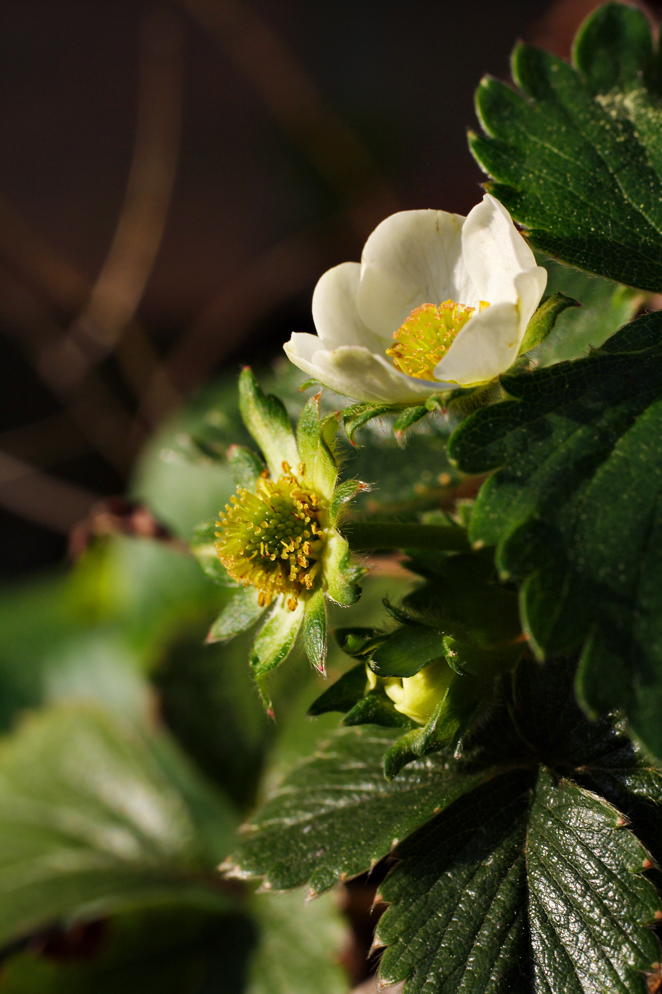 Strawberry flowers.